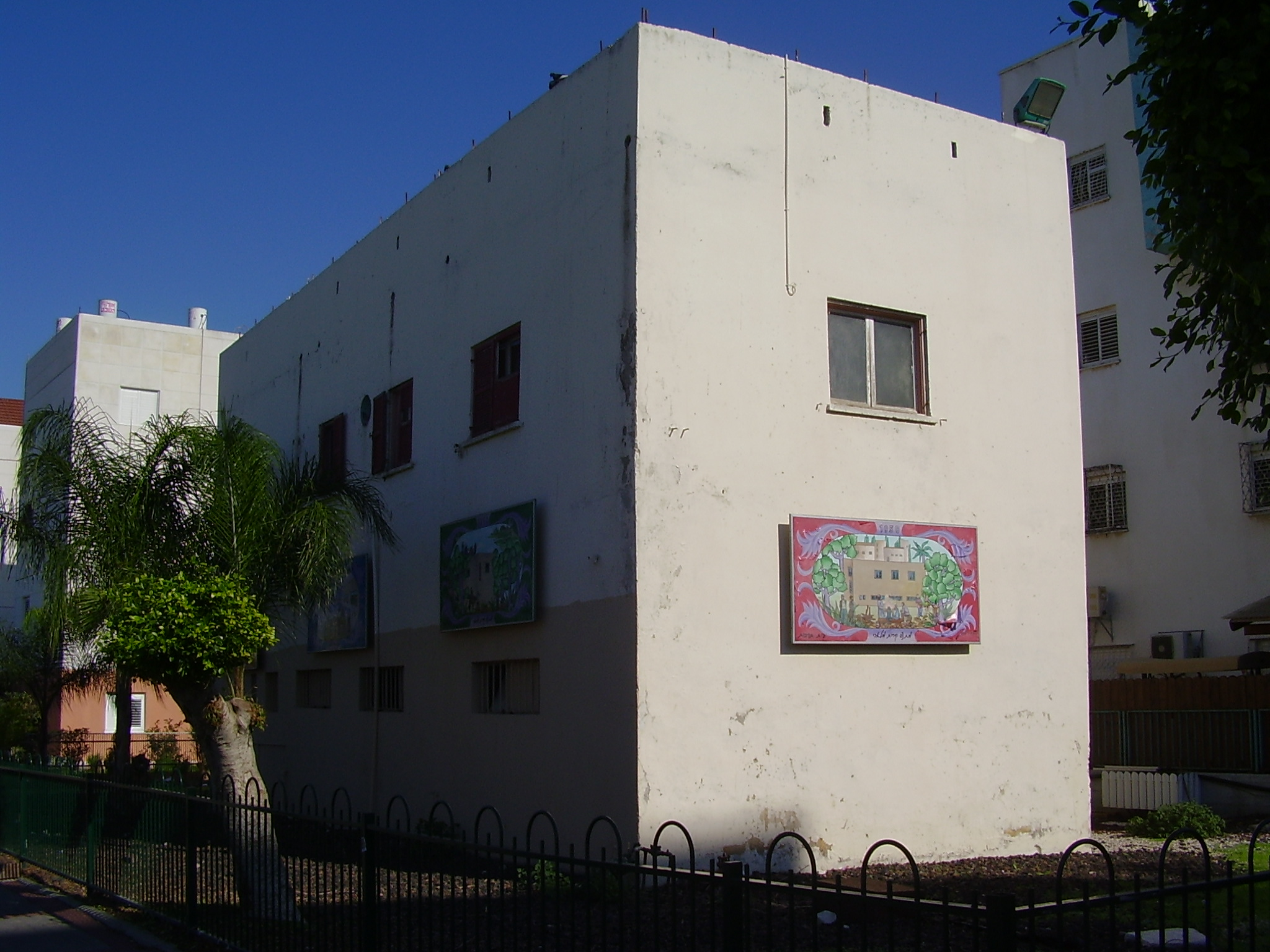 founders house in kiryat malakhi בית ראשונים בקרית מלאכי